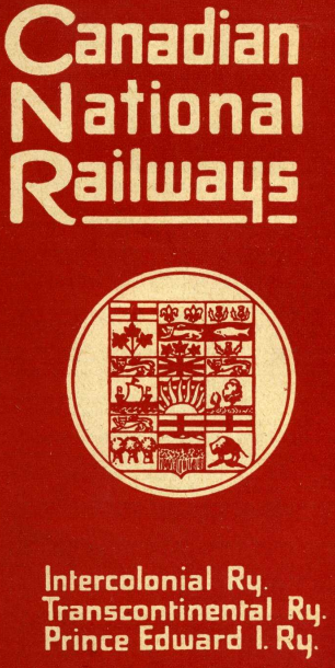 Front page of 1919 Time Table of the Canadian National Railways established in 1918 by the Canadian Government to replace the Canadian Government Railways established in 1915 to nationalize railways in financial crisis.